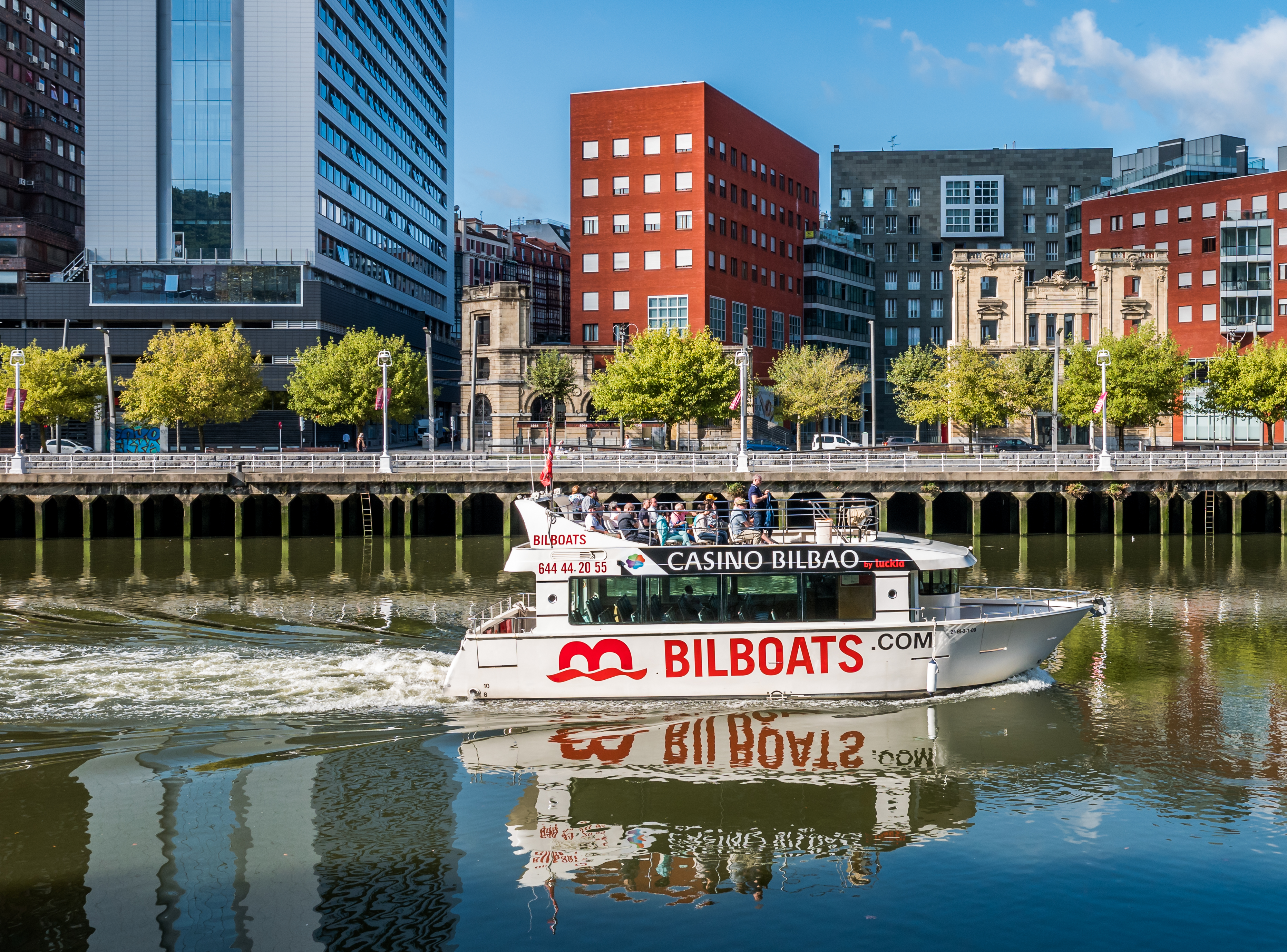 Tourist tour boat "Bilboats" on the Estuary of Bilbao. Biscay, Spain